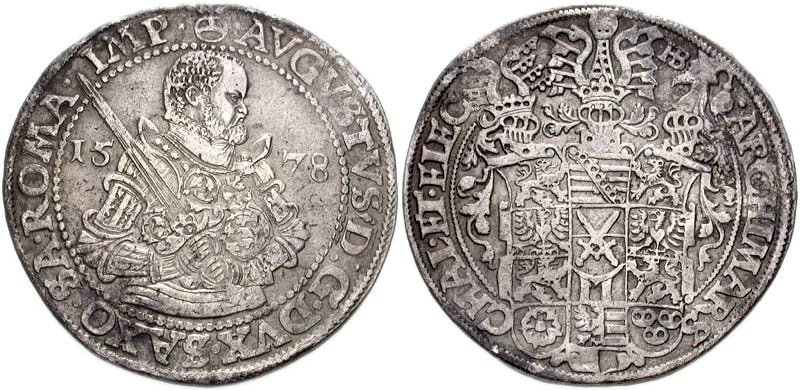 Germany, (Saxony). Augustus. 1553-1586. AR Thaler (40mm, 28.67 g, 12h). Dresden mint; Hans Biener, mintmaster. Dated 1578. •AVGVSTVS•D:G•DVX•SAXONIE•SA•ROMA•IMP•, armored, bare-headed bust right, wielding two-handed sword; date across field •ARCHIMARS CHAL•ET•ELEC, complex (12 part) coat-of-arms topped by three ornate helmets; HB monogram above. Schnee 725; Sammlung Vogel 6651; Davenport 9798. VF, a few marks, darker areas, has been lightly cleaned.